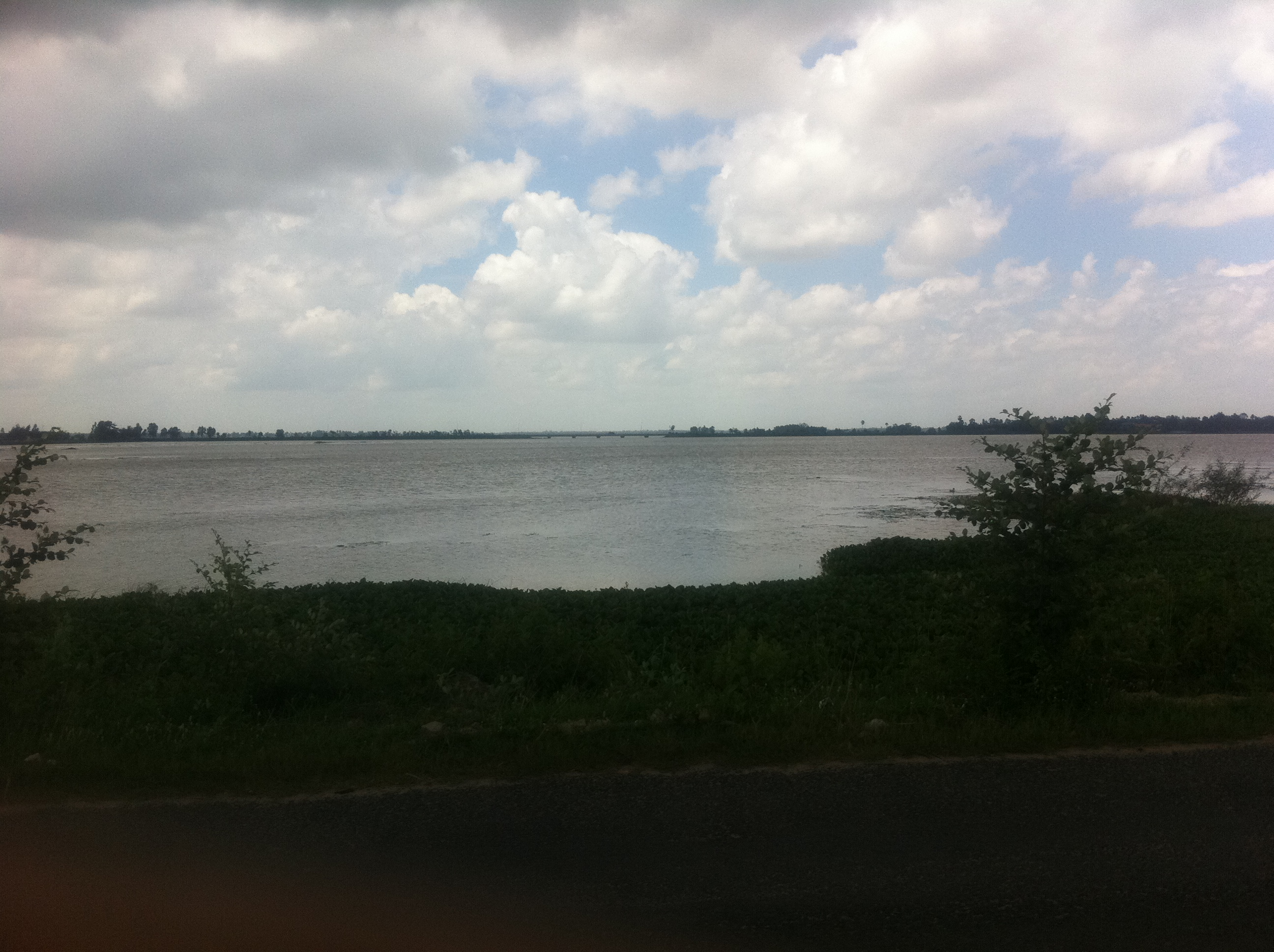 Svay Rieng Province